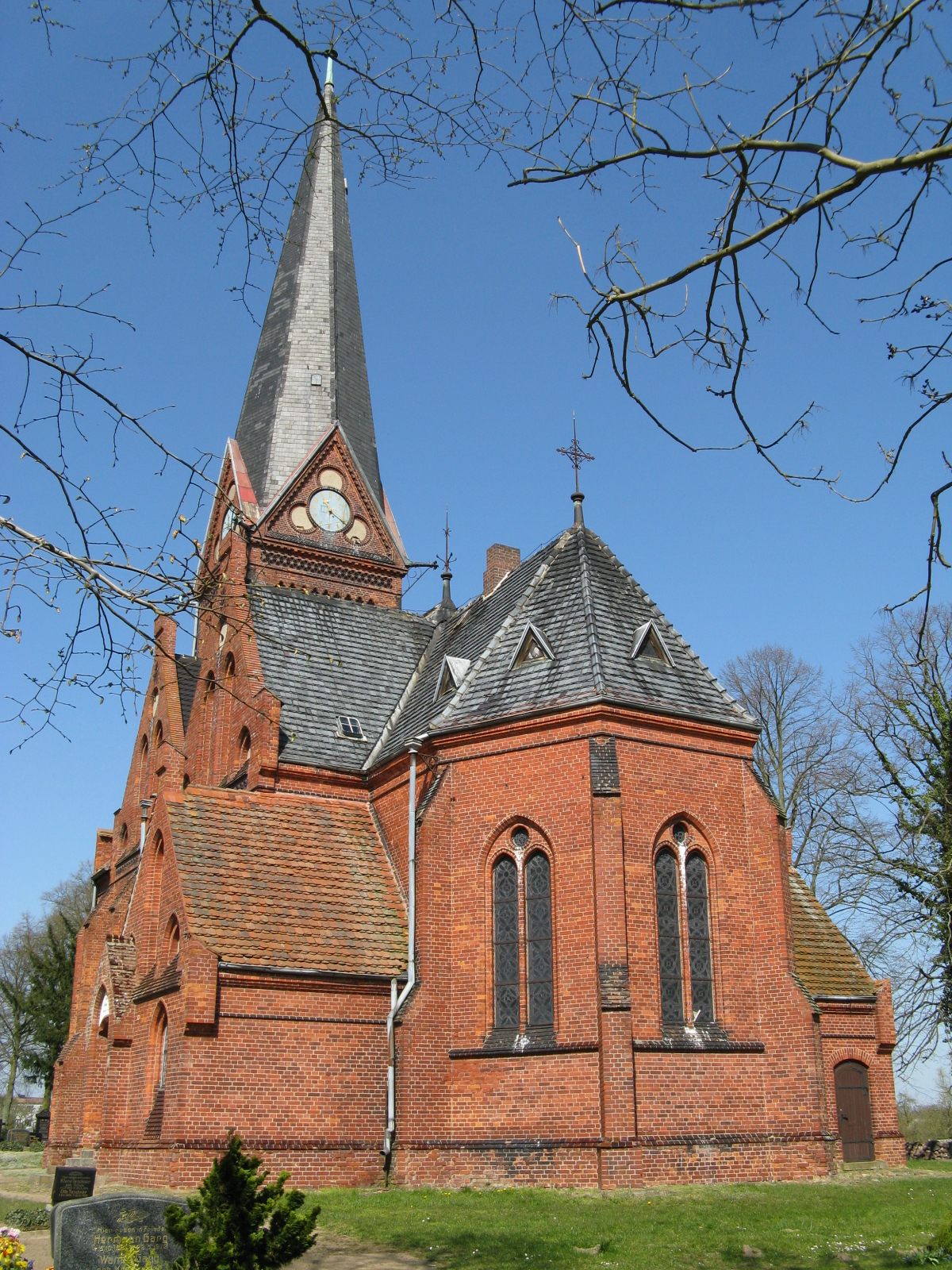 Church in Gnevsdorf, Mecklenburg-Vorpommern, Germany